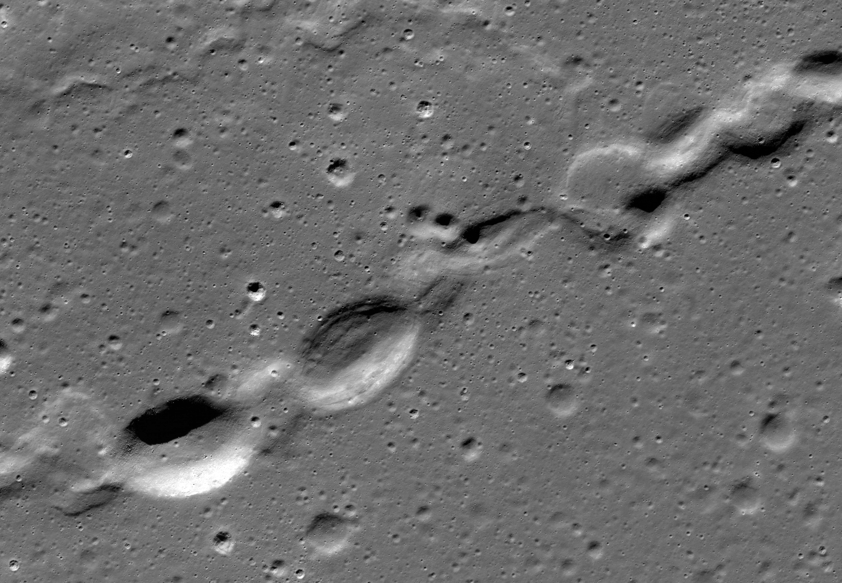 Part of endogenic crater chain on the Moon (full chain). It doesn't have a name (as for 2019). Probably, a result of collapsing of a lava tube, above which a wrinkle ridge formed (see entry on ). It is situated in northeastern part of Oceanus Procellarum, near Mare Imbrium, halfway between craters Gruithuisen K and Angström B. Centered at 34.43°N, 43.38°W. North is on the right. Photo by Lunar Reconnaissance Orbiter, made with Narrow Angle Camera 17 January 2012 from altitude 150 km. Sun elevation is 21.9°.Resolution is 2.97 m/pixel, width of the photo is 8.3 km.